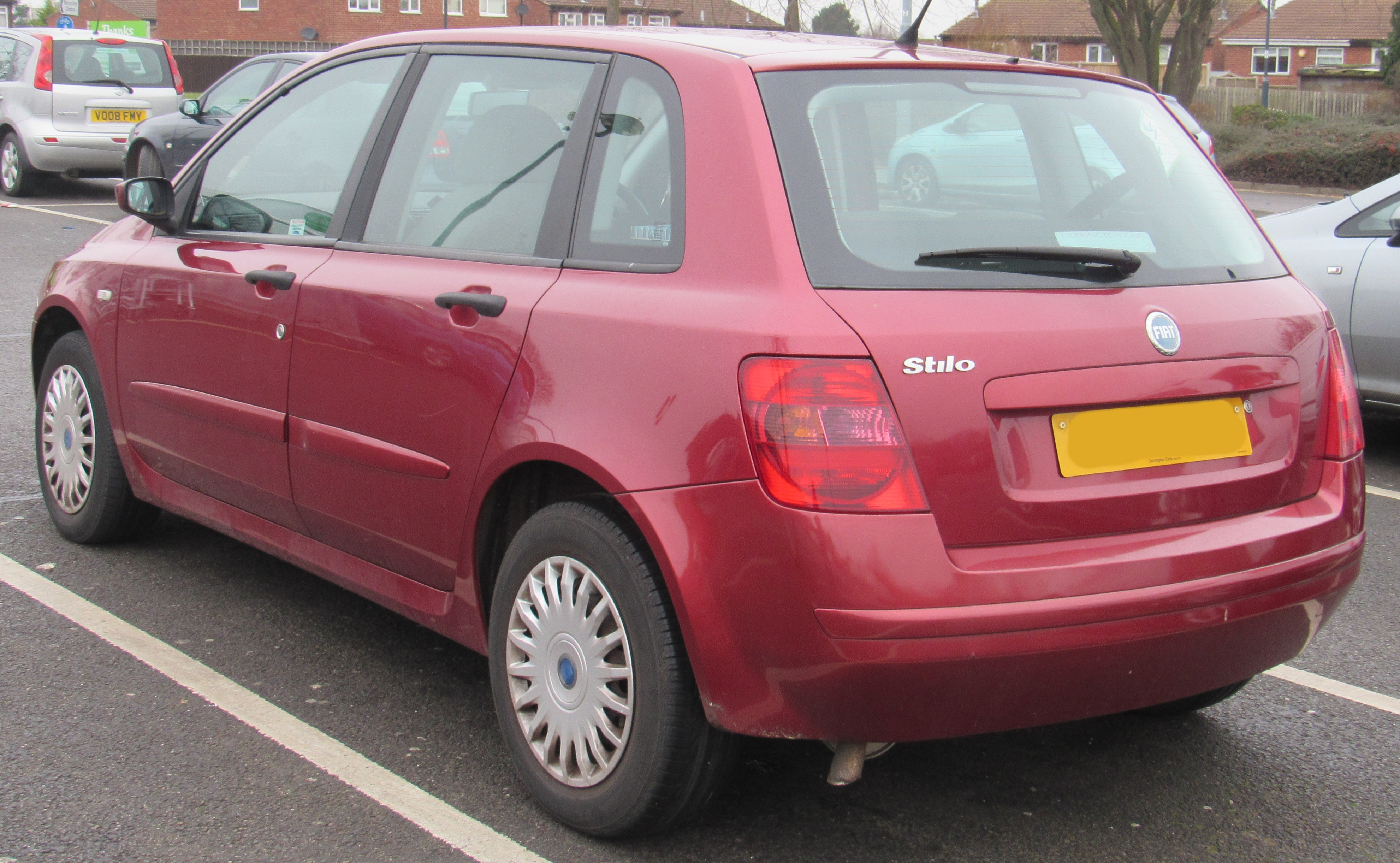 2004 Fiat Stilo Active 16V 1.4 Rear Taken in Leamington Spa